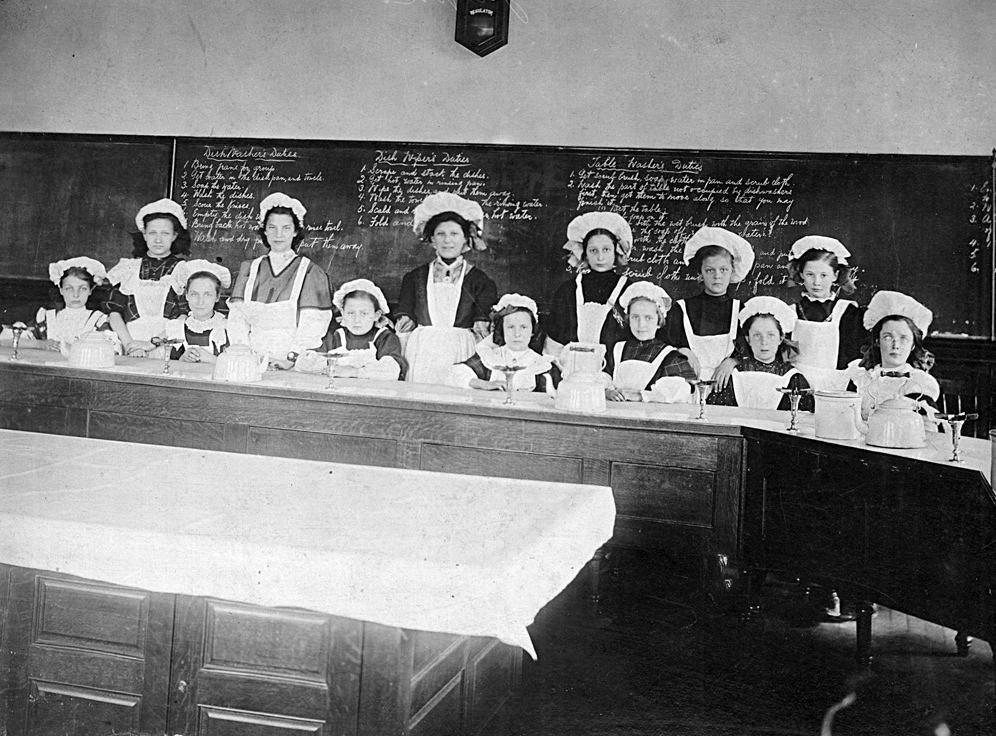 Home economics class in Toronto, Canada